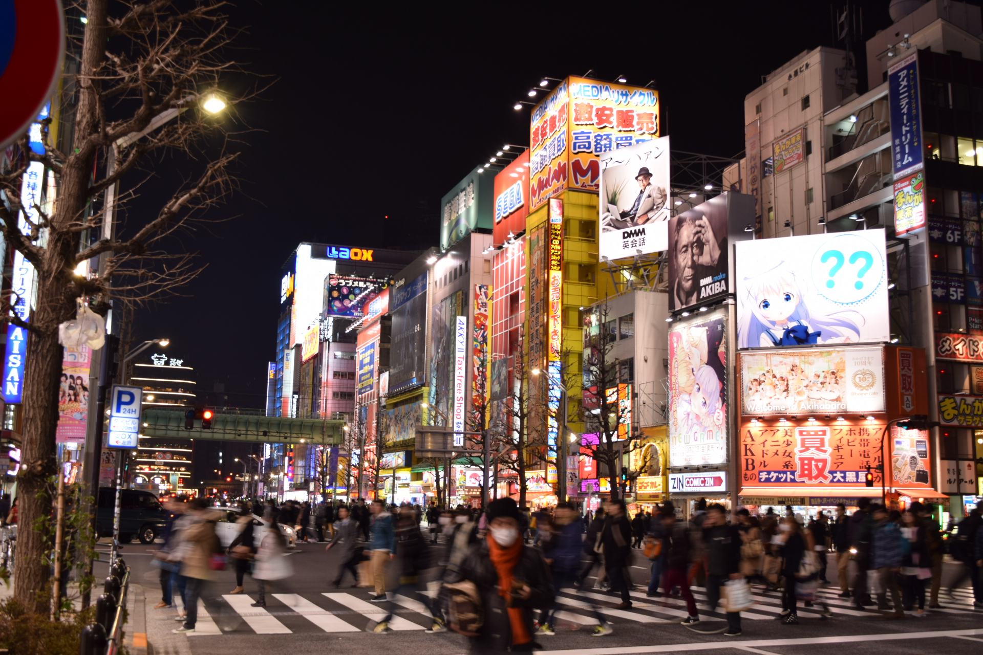 akihanaba(night)